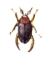 Noterus crassicornis, from Calwer's Käferbuch, Table 8, Picture 13. Taxonomy was updated to 2008, using mostly the sites Fauna Europaea and BioLib. Please contact Sarefo if the determination is wrong!